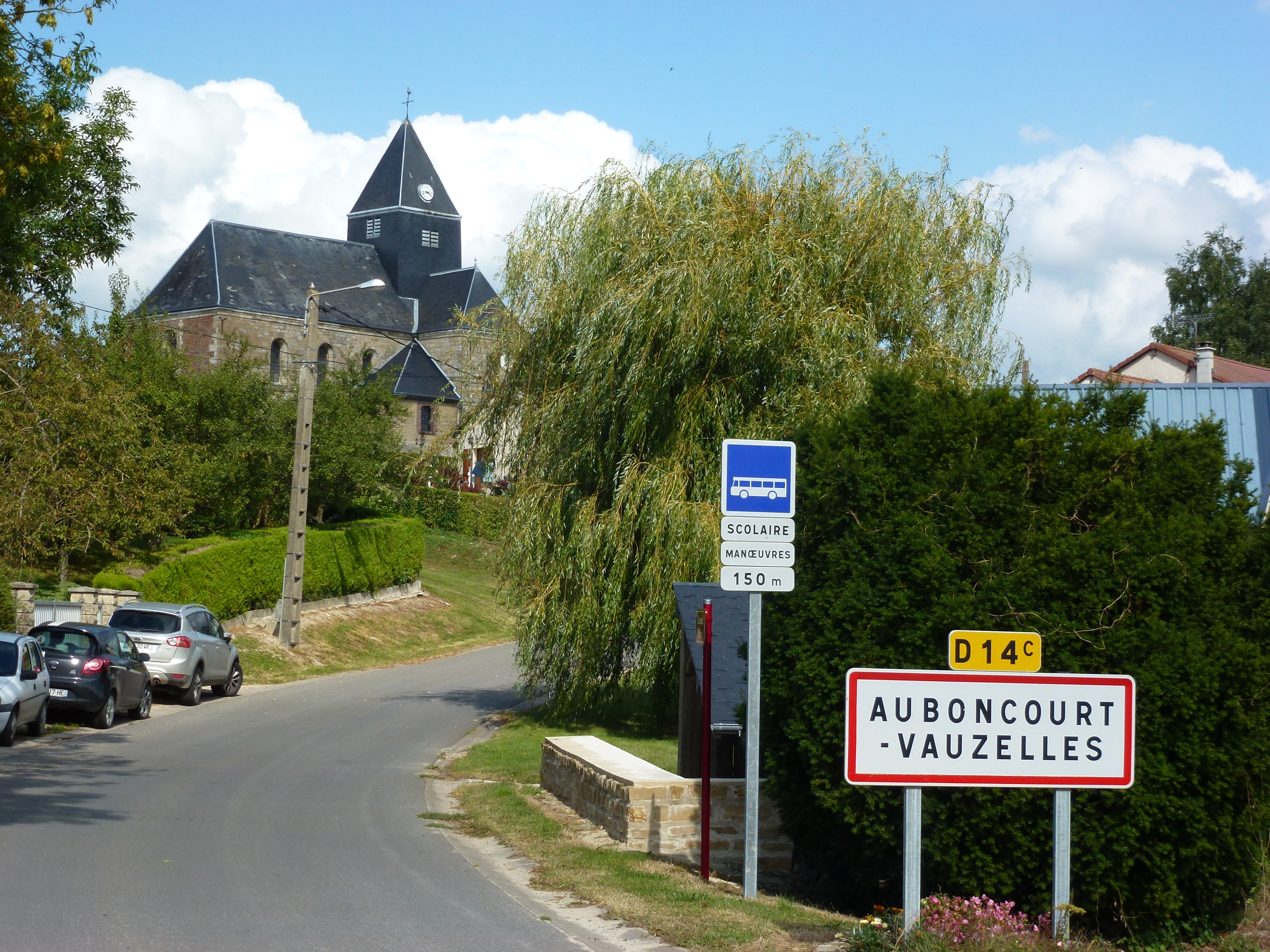 Auboncourt-Vauzelles (Ardennes) city limit sign